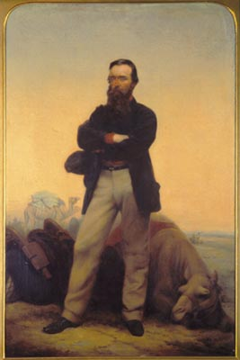 Portrait of John Pascoe Fawkner, founder of Melbourne.